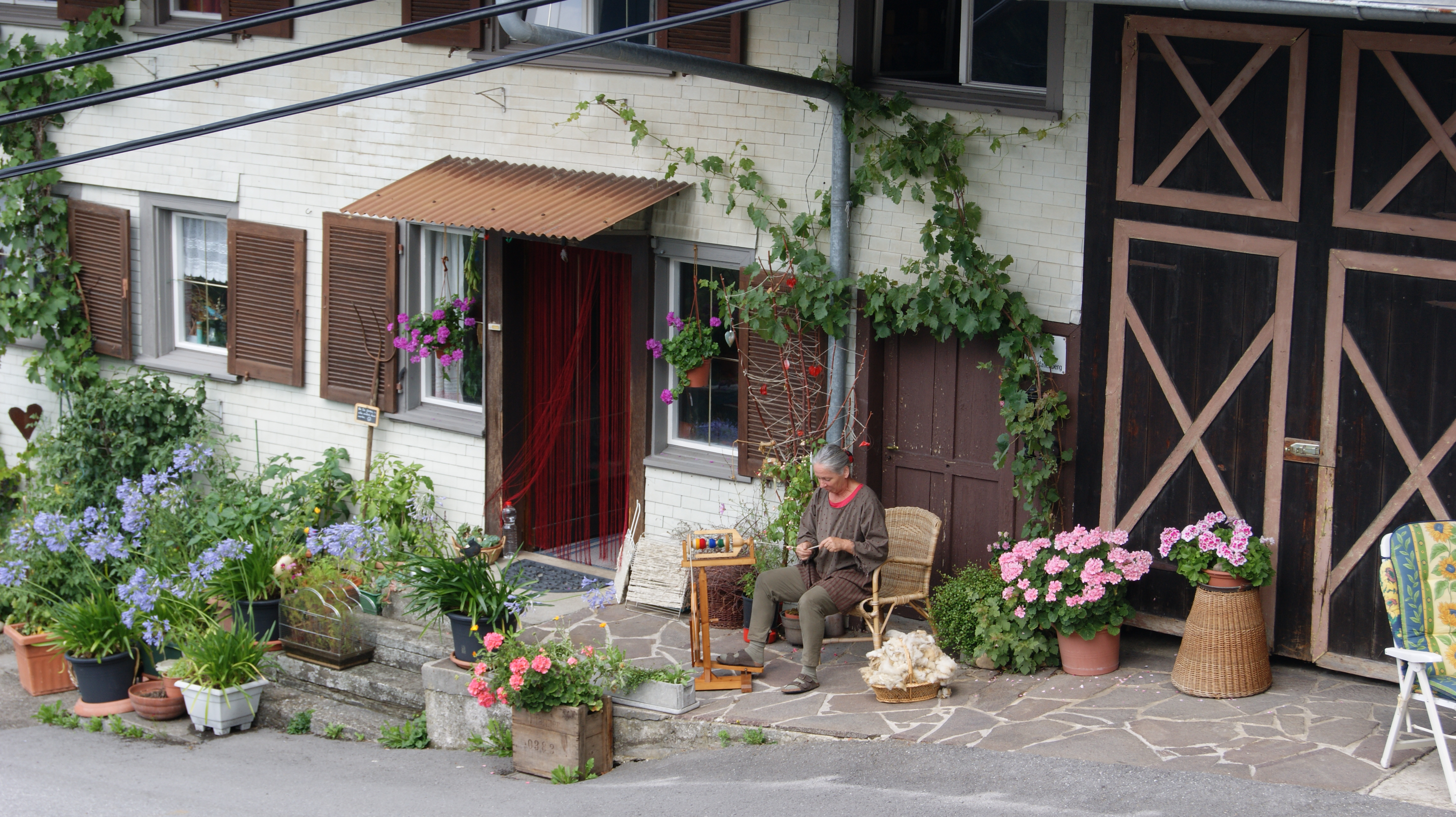 Hill "Unterfallberg" in Dornbirn, Vorarlberg, Austria. House "Unterfallenberg" No. 5 with busy Spinner on work.